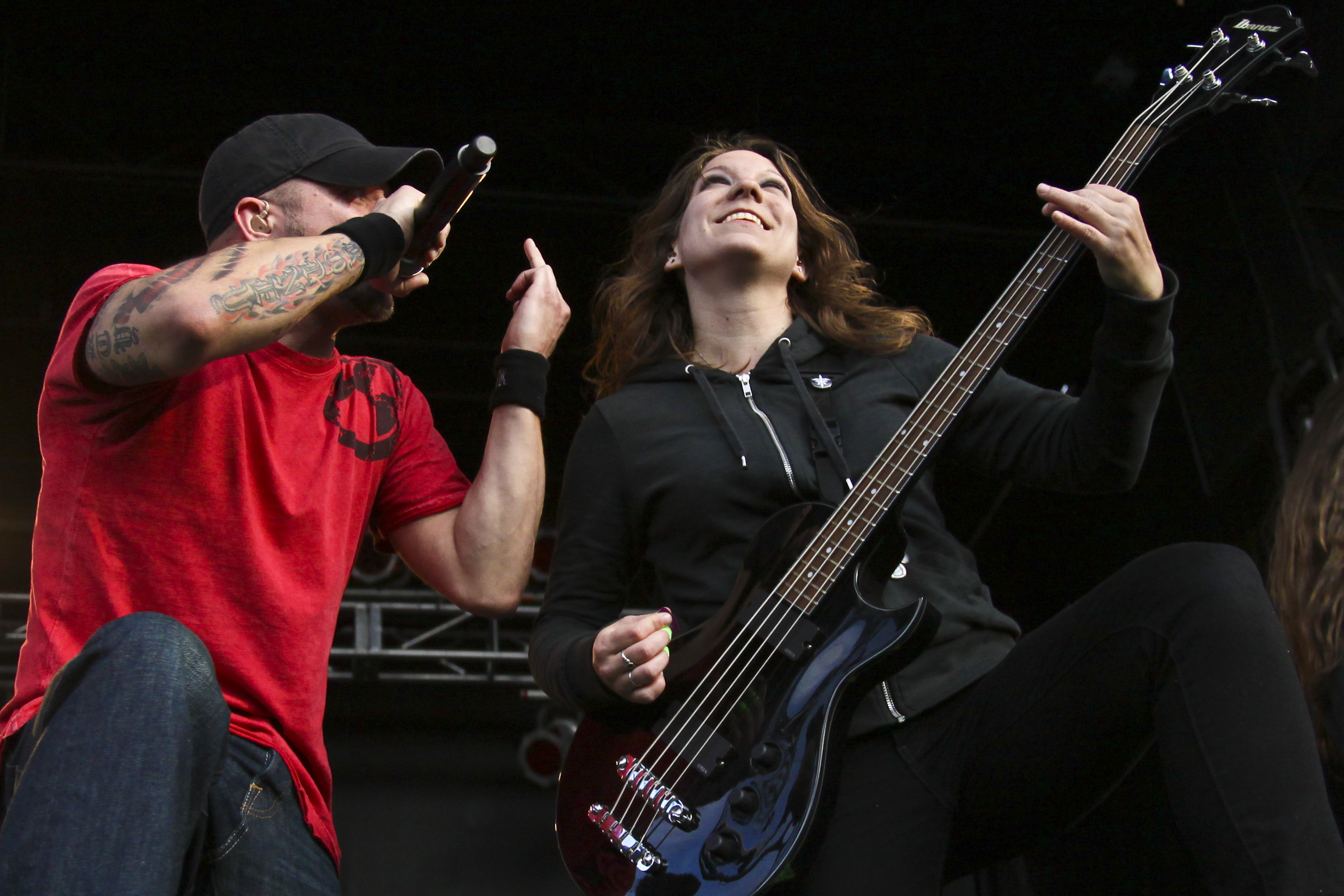 94X Fest in Duluth, MN photo by Kasey Jean Noll